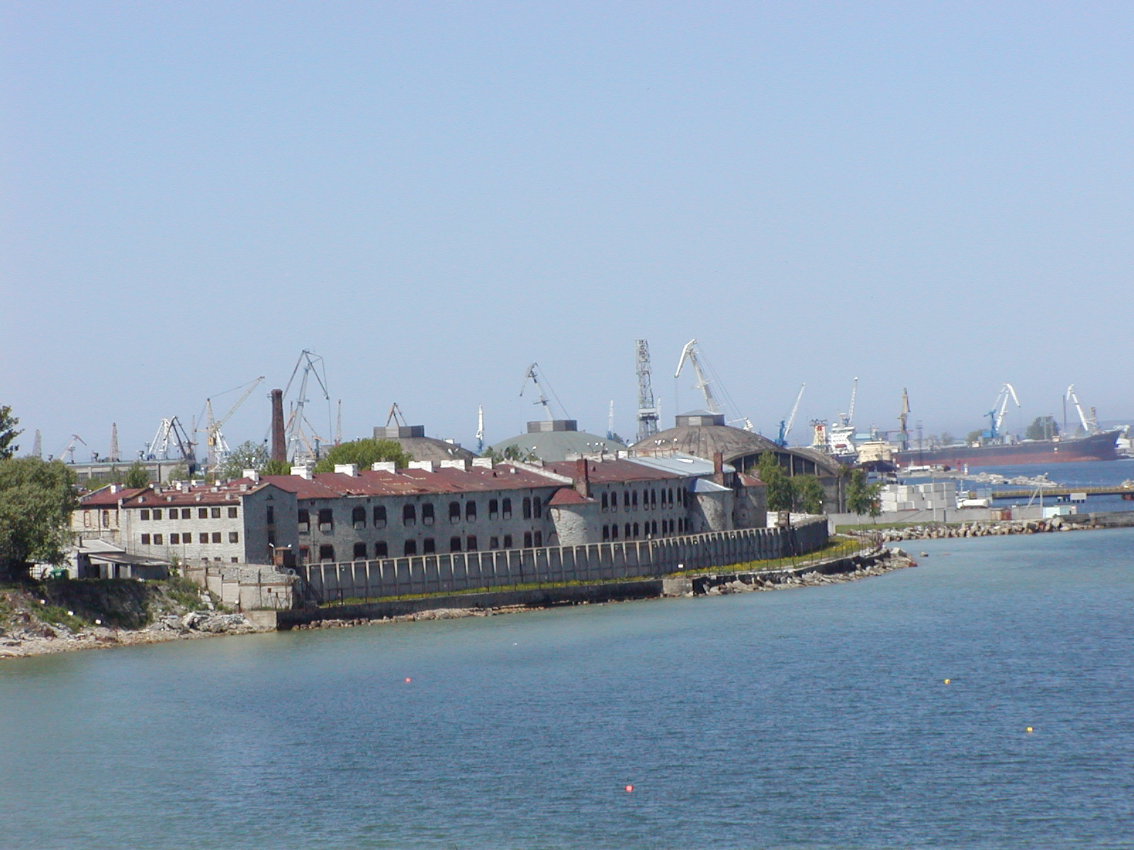 Patarei Prison in Tallinn seen from the roof of the Linnahall. The reinforced concrete airplane hangars of the Imperial Russian Air Force are seen in the background.